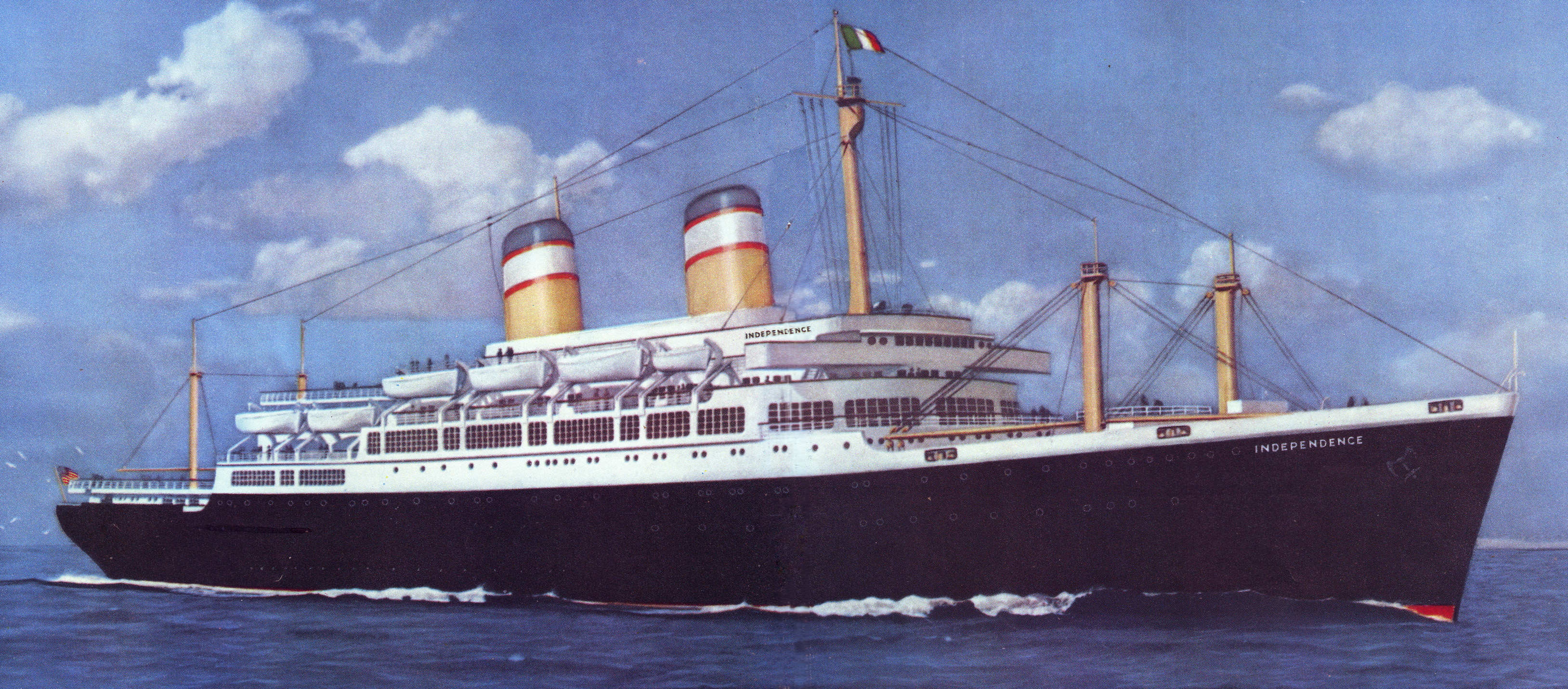 SS Independence 1951. Two page spread illustration from a 24-page brochure for the "Gala Maiden Voyage of the Sun Liner Independence Mediterranean Cruise Feb. 10, 1951". American Export Lines Depart New York: Feb. 10; 22 Mediterranean ports in 53 days; Arrive New York: April 3, 1951